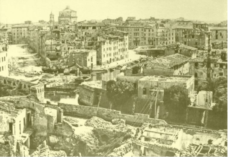 Destruction in Livorno, Italy, during World War II